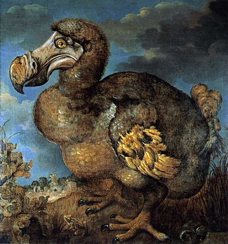 Jan Savery's painting of a dodo, based on his uncle Roelant's painting.